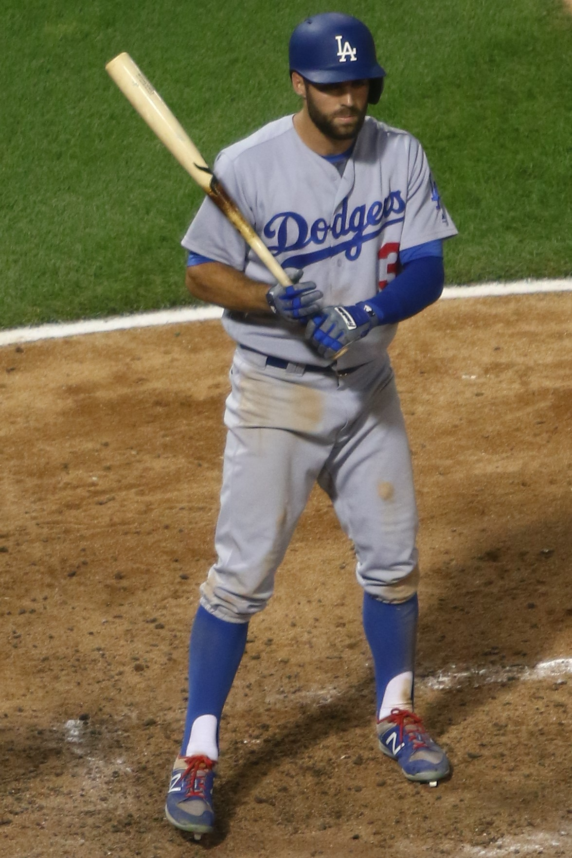 Chris Taylor for the 2017 Los Angeles Dodgers